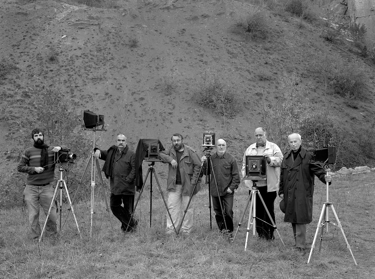 Group of photographers "Český dřevák" (from left to right: Tomáš Rasl, Jan Reich, Bohumír Prokůpek, Jaroslav Beneš, Karel Kuklík, Petr Helbich) in Prokop valley, Prague.